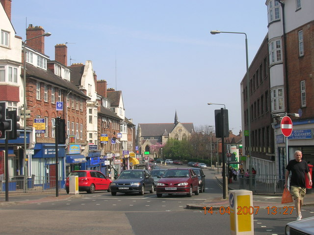 Finchley Lane at its Junction with Brent Street, London NW4 Taken from Church Road, London NW4